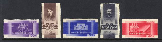 Stamp of USSR